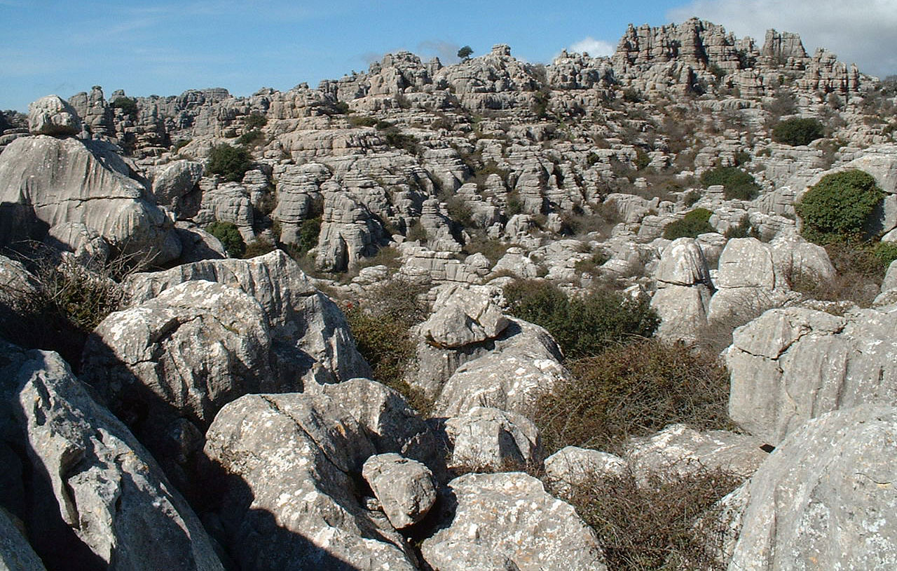 Karst at El Torcal de Antequera, southern Spain